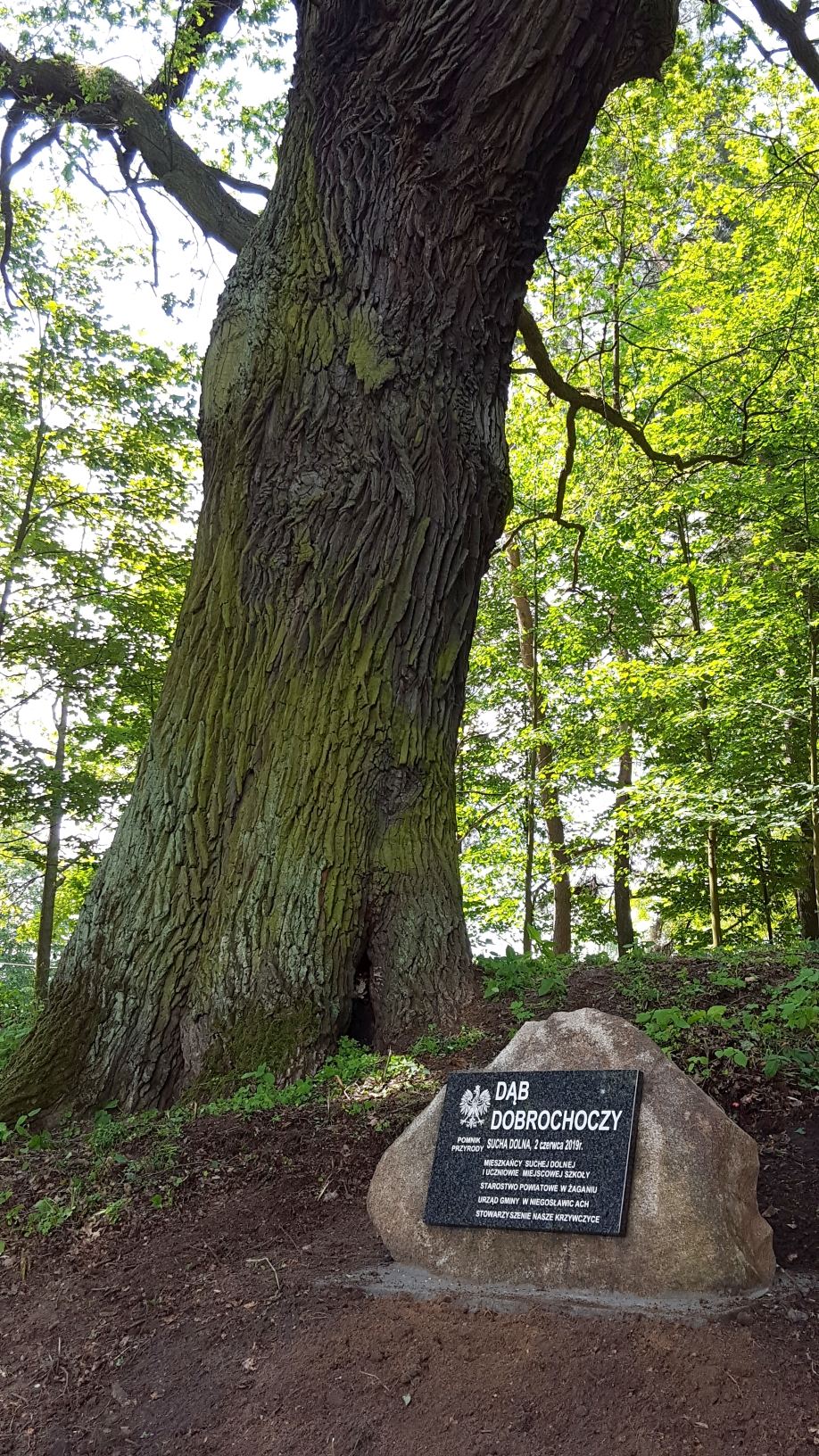 Dobrochoczy Oak Tree, Nature monument, Sucha Dolna Village, Poland. The age of tree about 400 y.